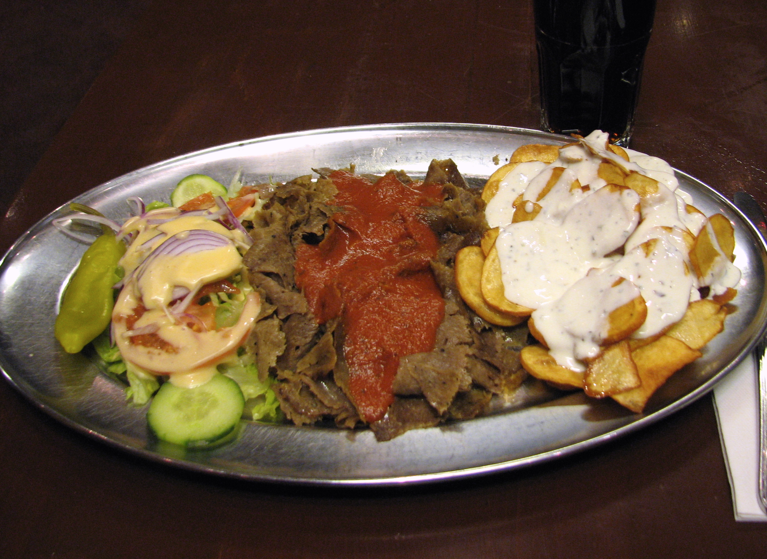 A plate of döner kebab with garlic potatoes in Helsinki, Finland.